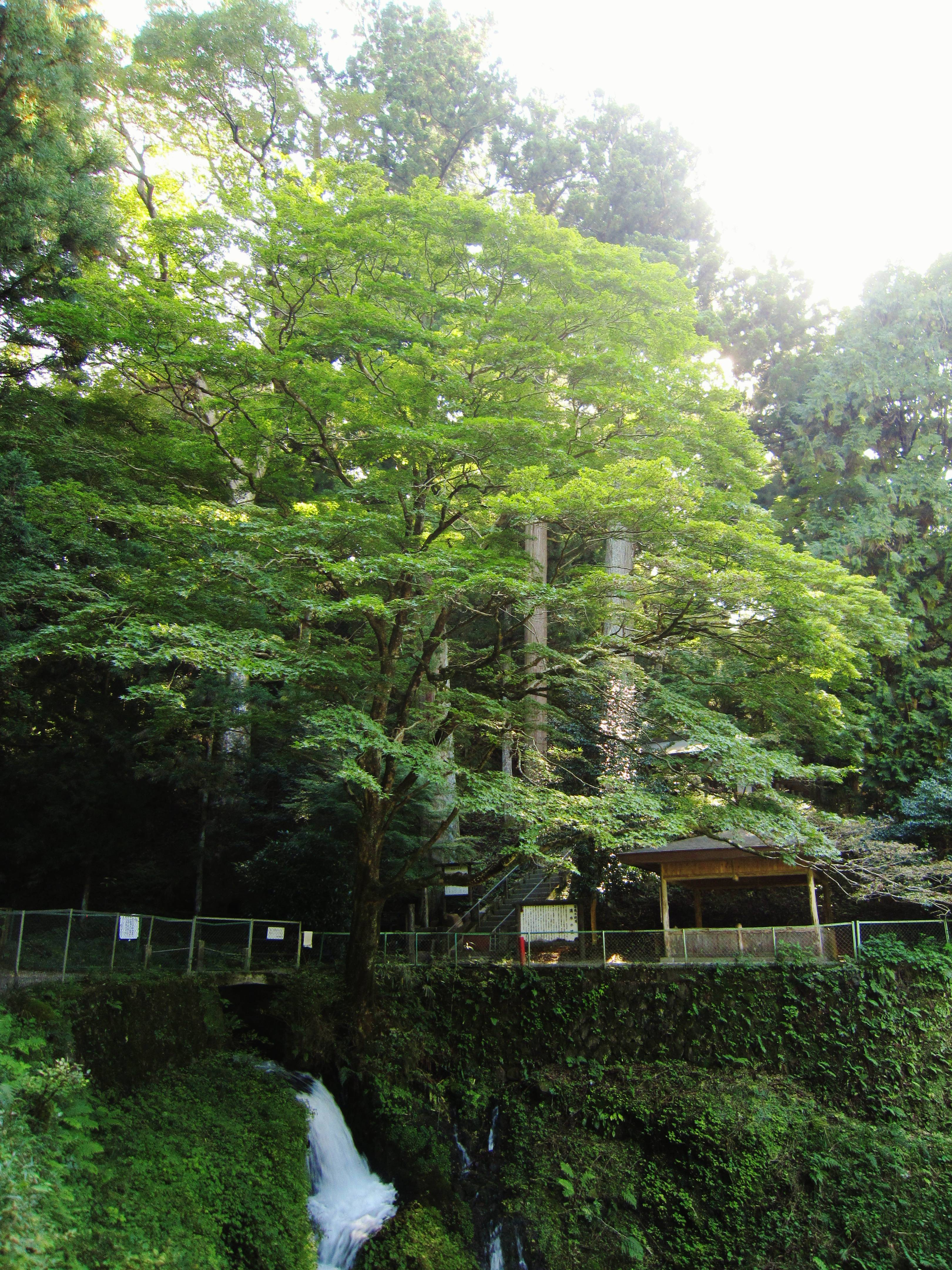 Fudoson no Osugi.